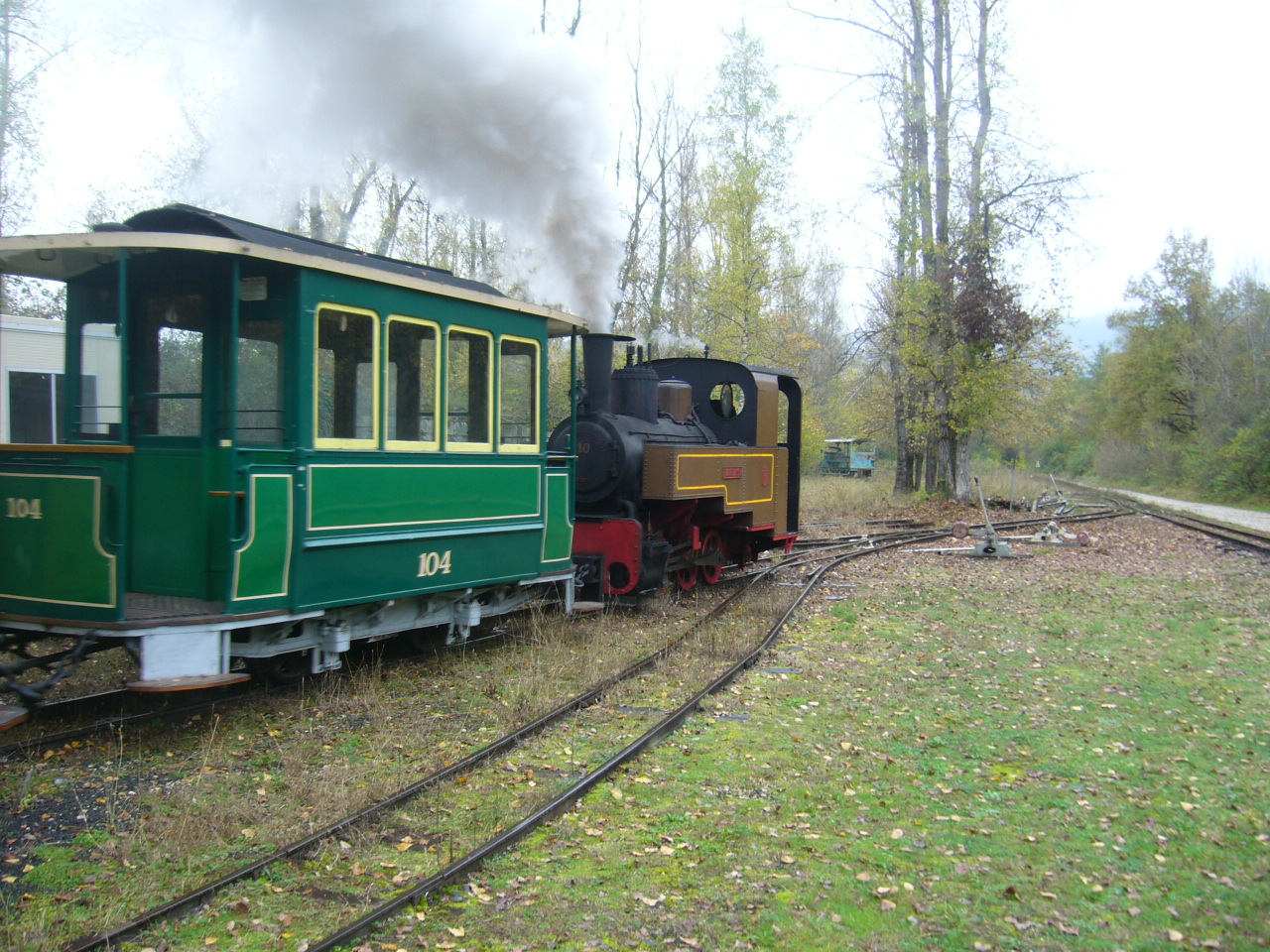 voiture n° 104, ex Tramway Neuchatel